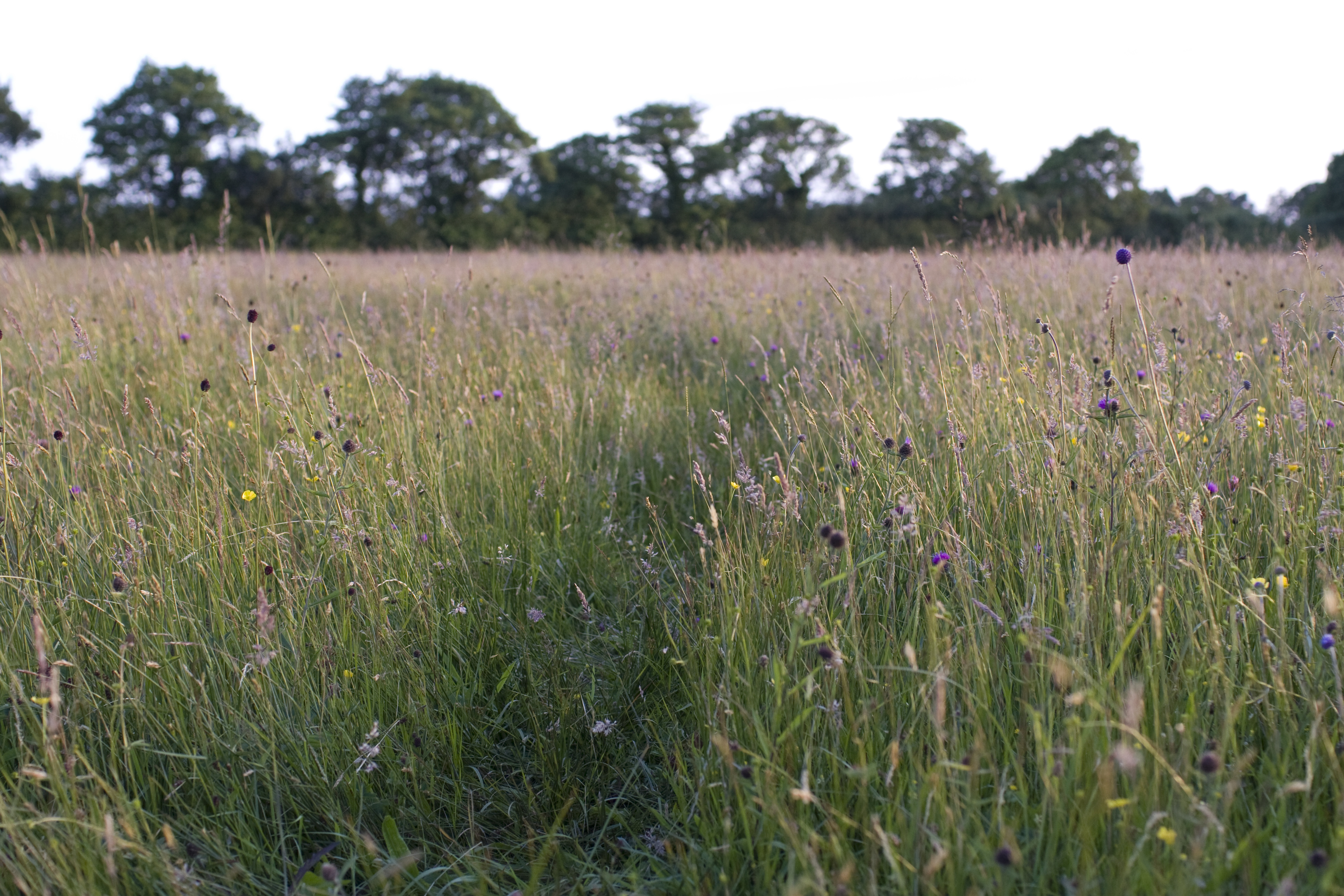 Mottey Meadows in Staffordshire. Date is approximate.